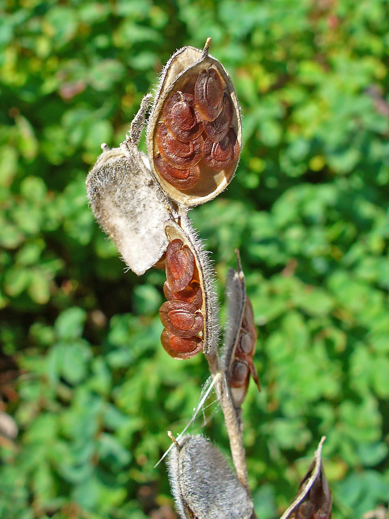 Fibigia clypeata, Roman Shields, fruits with seeds; Botanic Garden Universiy Tübingen, Germany.